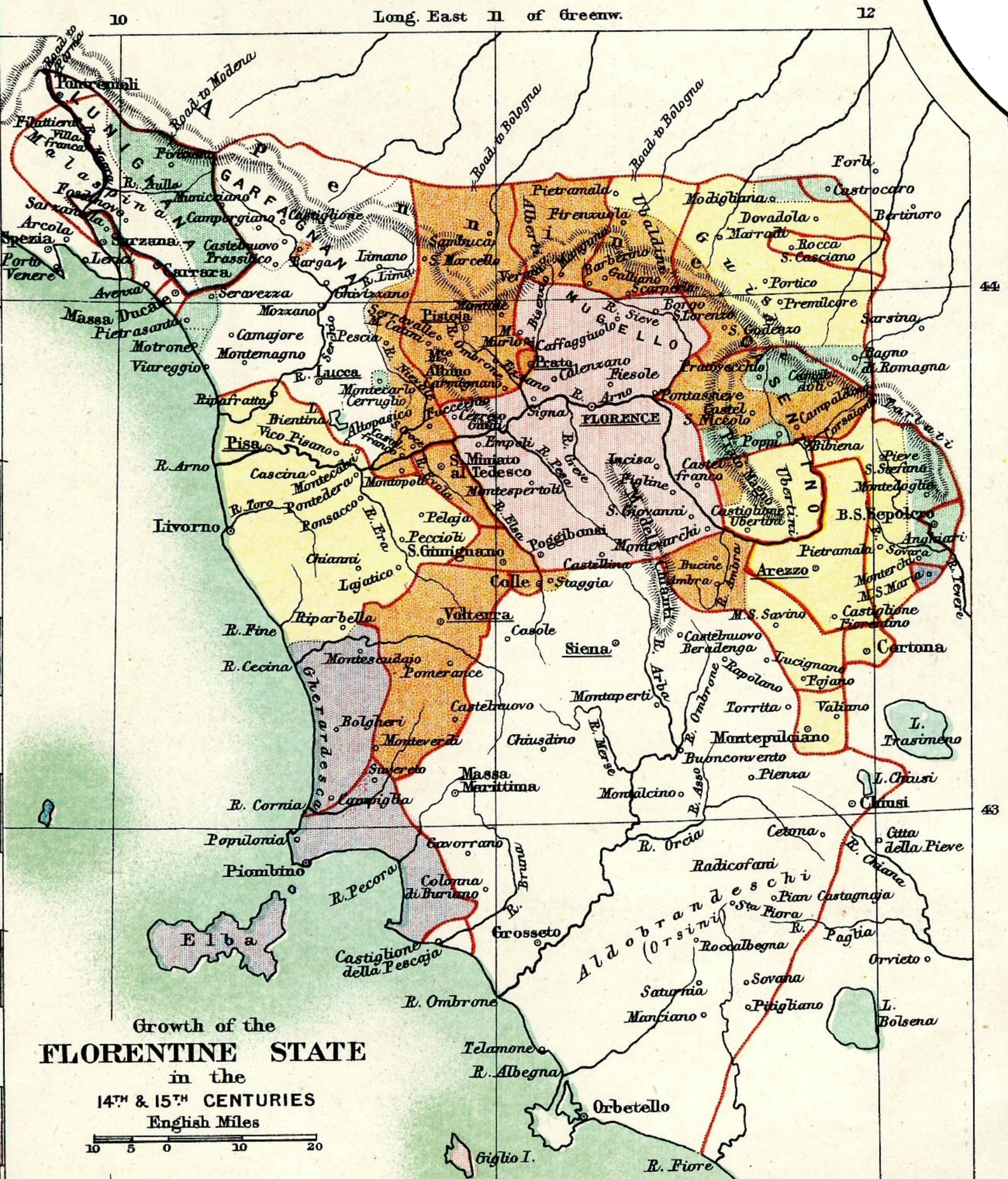 The "Growth of the Florentine State in the 14th & 15th Centuries", an inset map from Plate 68 in Reginald Lane Poole's Historical Atlas of Modern Europe. The boundaries of the Tuscan states in 1300 are distinguished by scarlet borders. The Florentine state in 1300 is colored pink. Its expansion up to 1377 is brown, but areas gained and lost before 1377 have only a brown border. Further expansion up to 1433 is colored yellow; further expansion up to 1494, green. Territory raccomodato to Florence but never under complete subjection is colored violet, while territory raccomodato to Florence and lost again before 1500 has only a violet border.